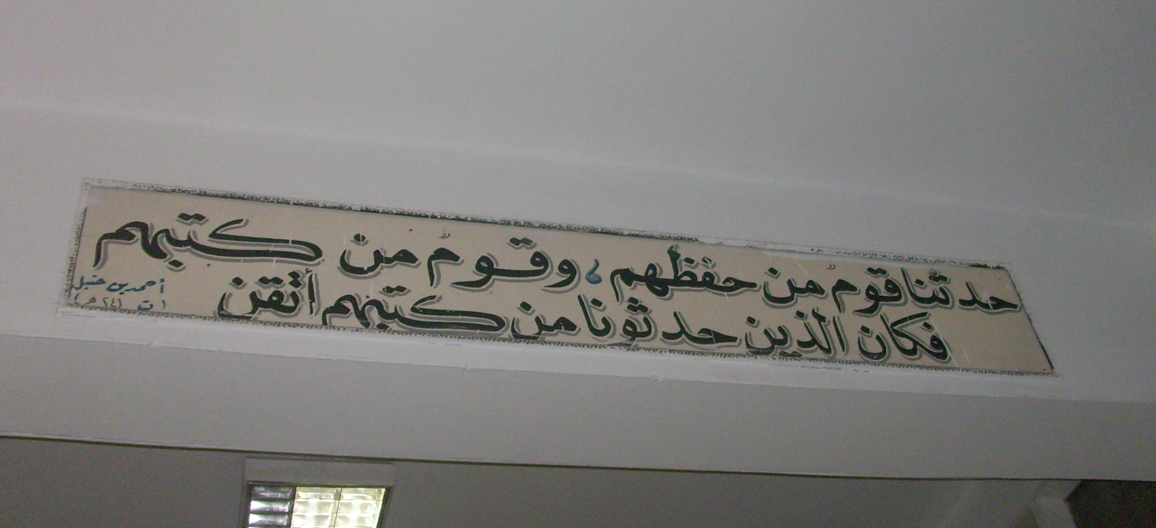 Cairo Univ, Dar Al-Oluom Qutation